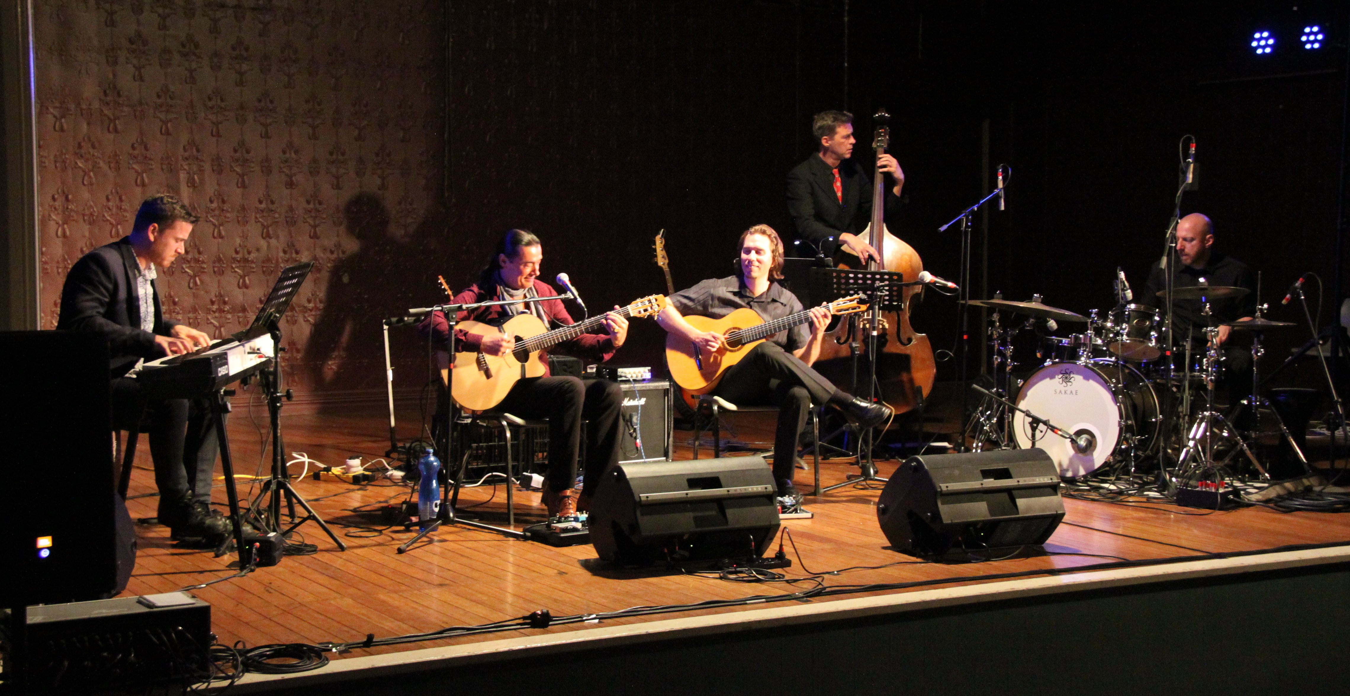 Bart Stenhouse, Australian jazz fusion musician on stage with his group (plus special guest Lulo Reinhardt) at Bangalow, 2017 (photograph by Tony Rees)